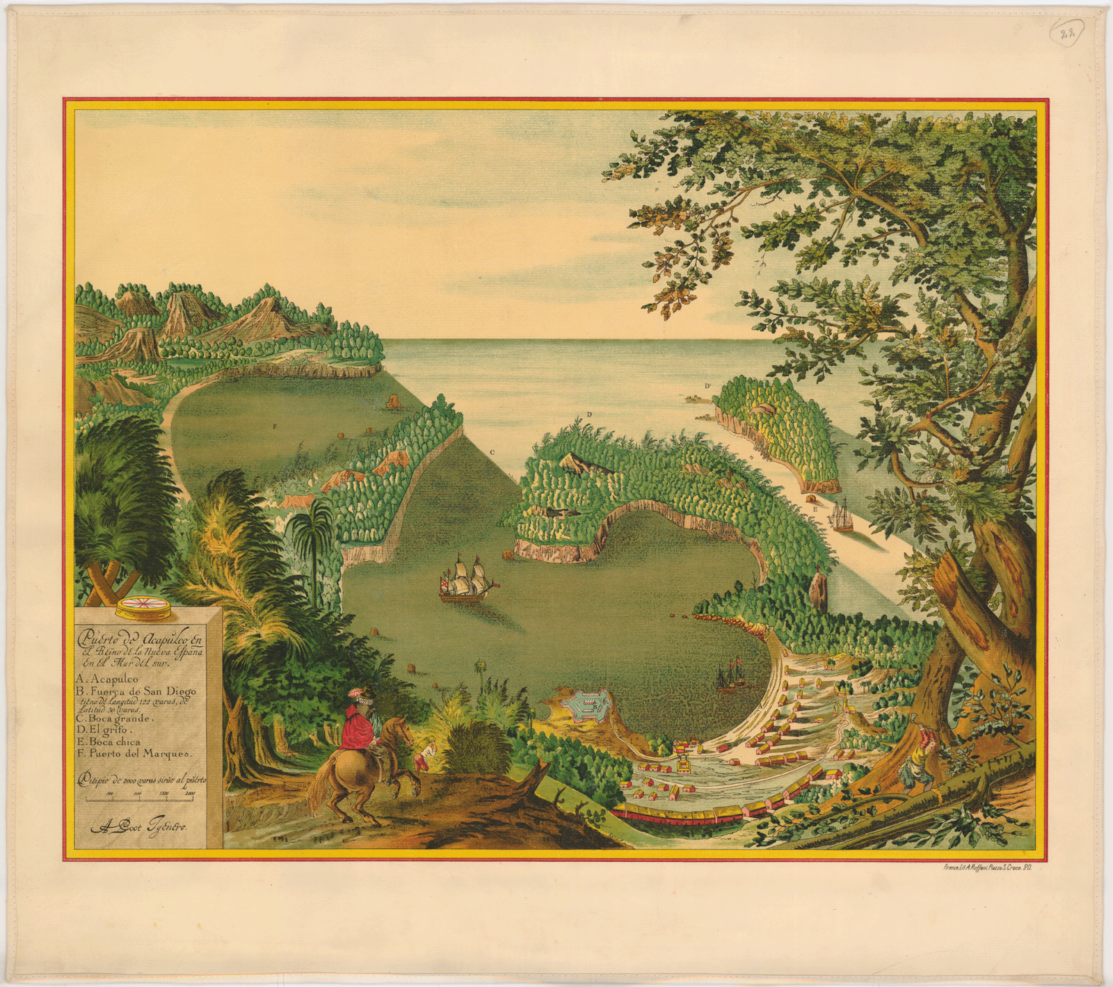 Litography of Acapulco port in 1628, during the Viceroyalty of New Spain. Litog. Ruffoni, 1628. 56x43 cm; 22x17 Converted from GIF to PNG by the uploader. A colored, picture relief map of the area with an explanation of the letters used.